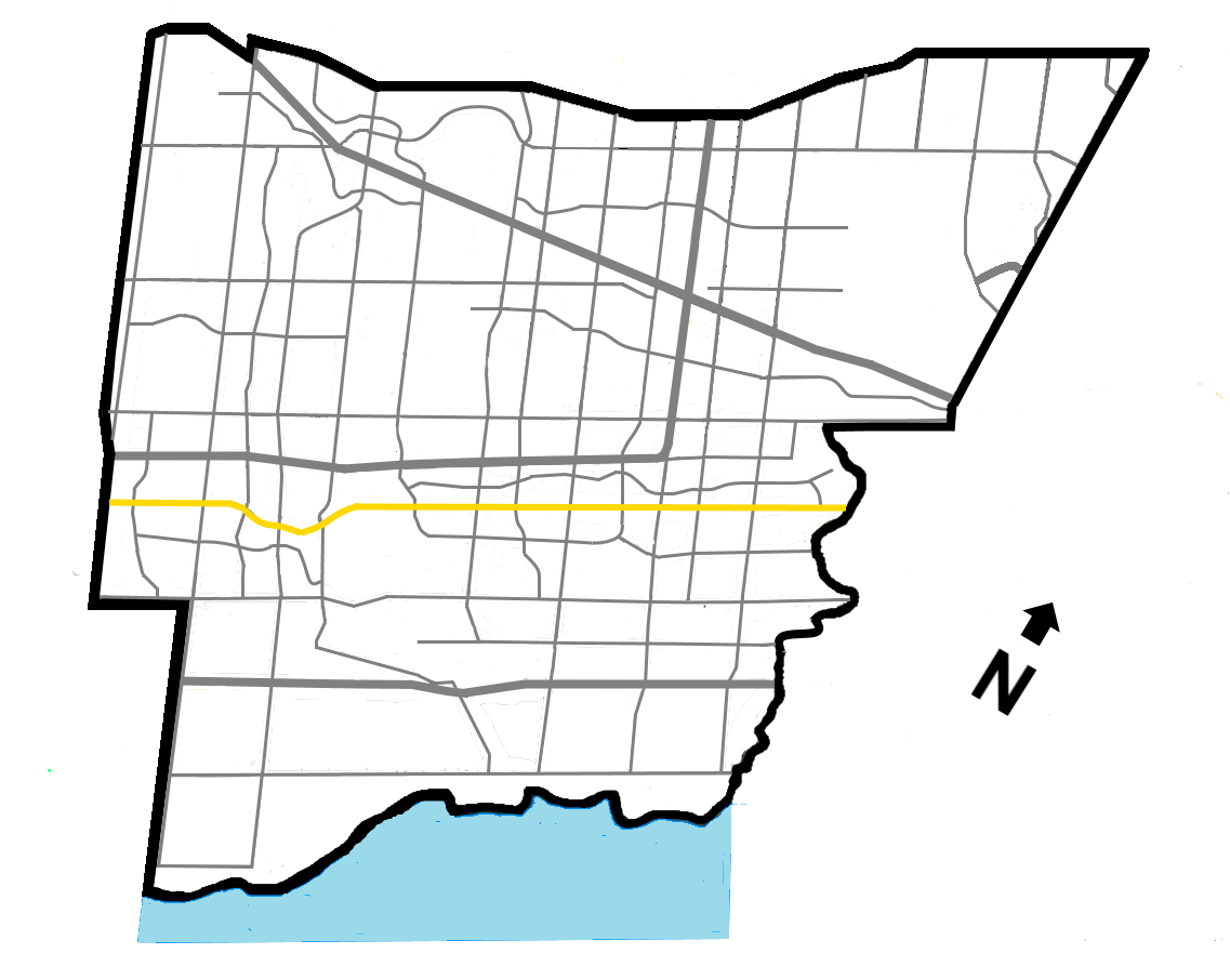 Burnhamthorpe Rd.in Mississauga